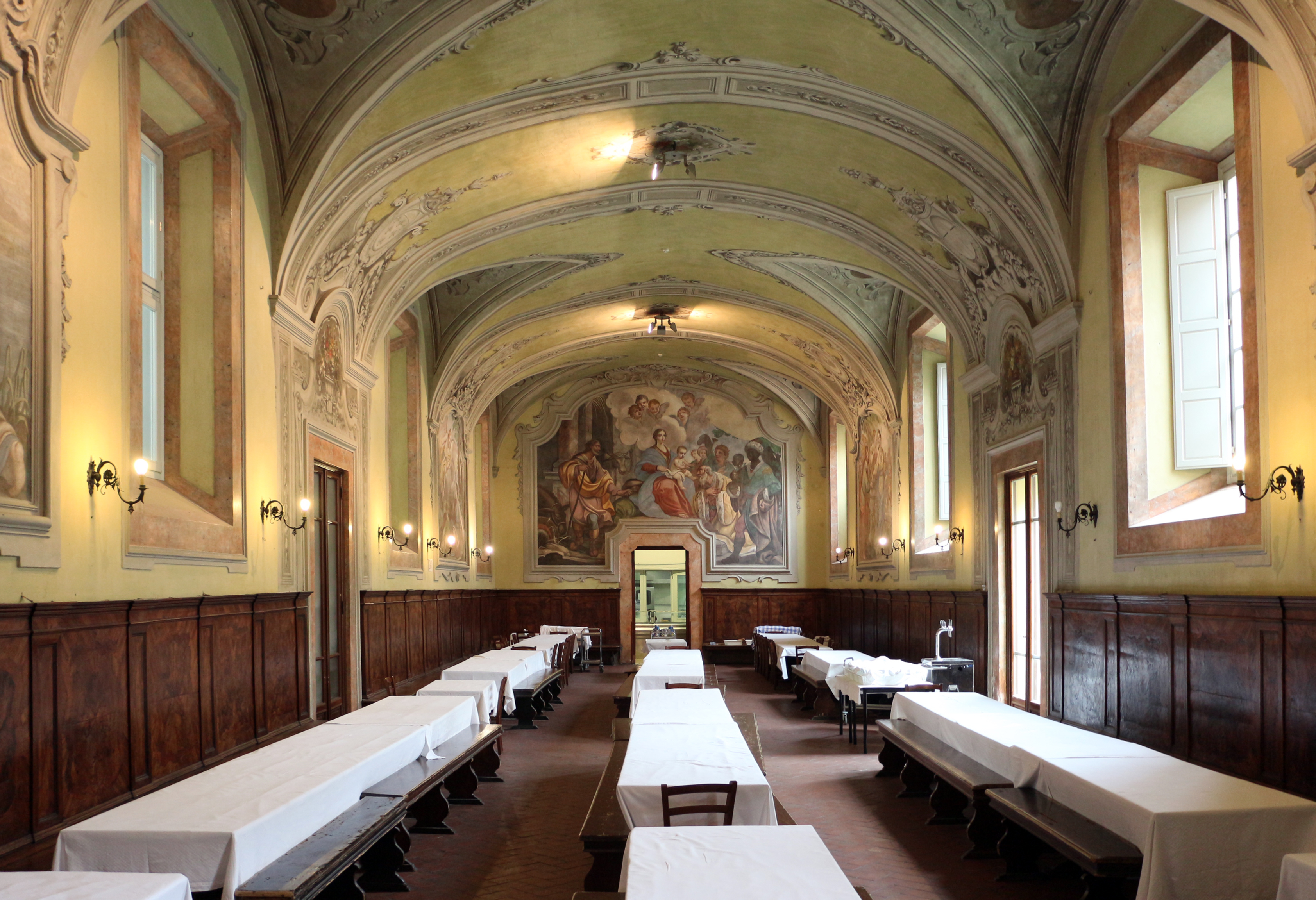 Refettorio (Collegio Cicognini)